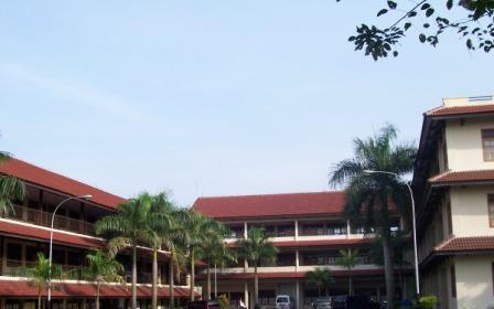 Faculty of Egineering lecture hall